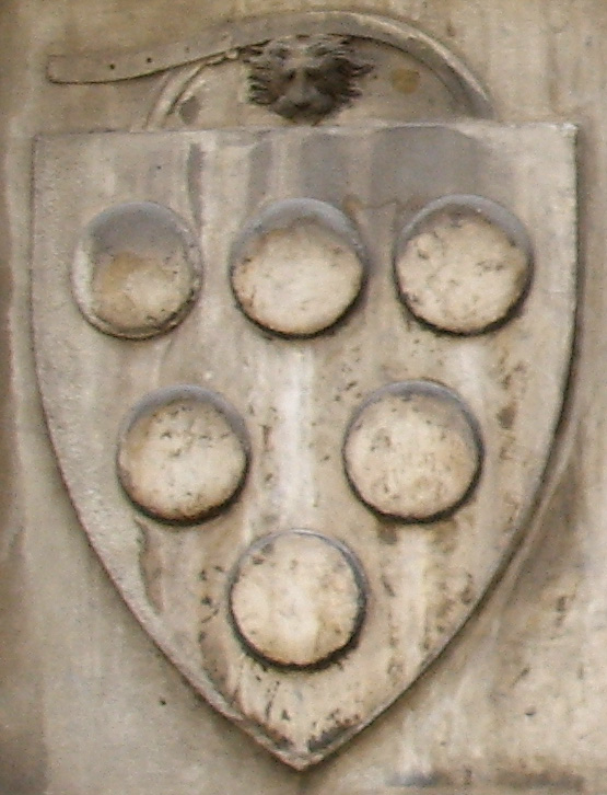 Coat of arm of Medici family of Florence, from Santa Maria Novella church outside view.